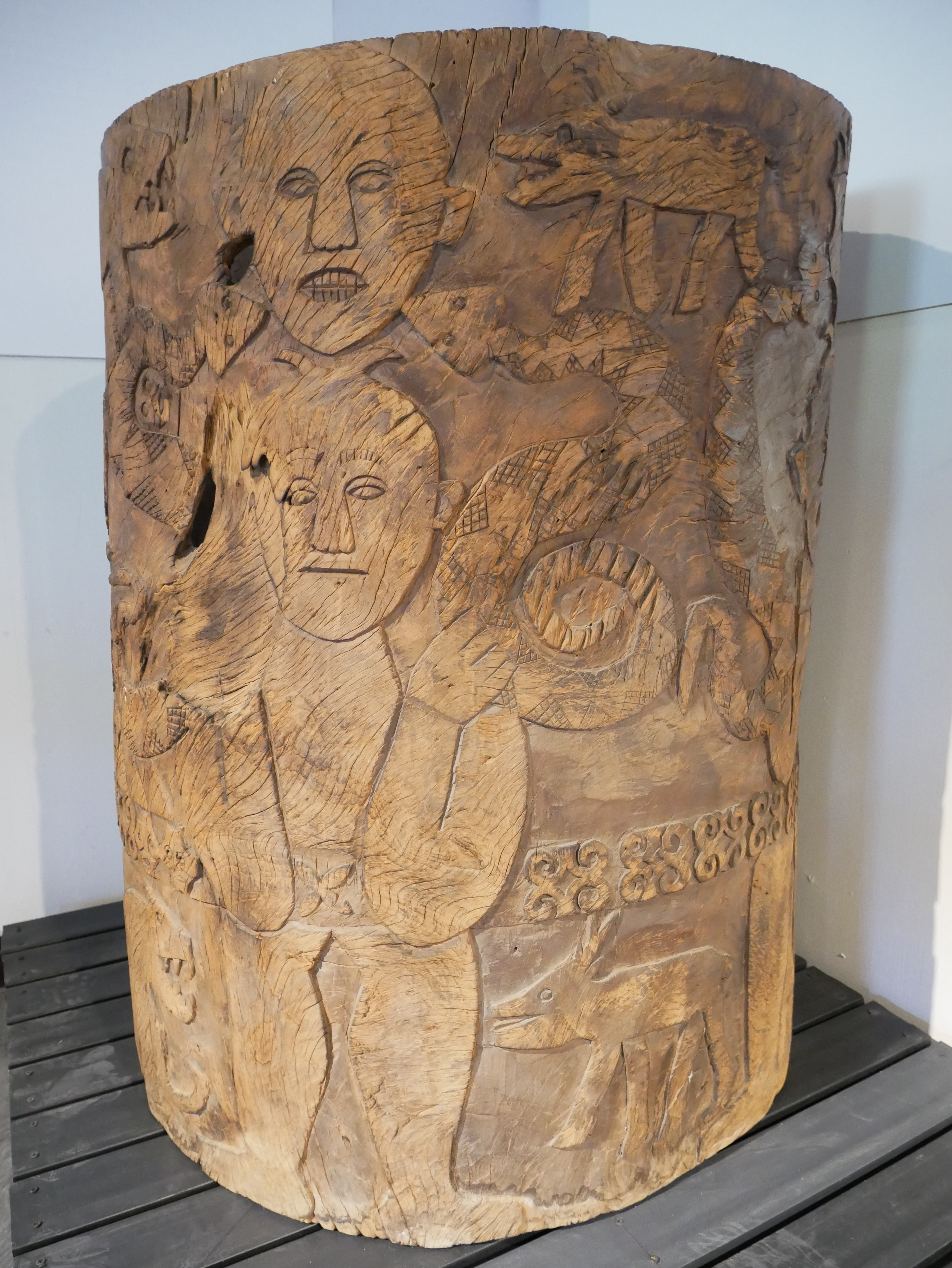 蔡旺（力大古/Lidaku Mabaliu，1902～1990）所製魯凱族好茶社（Kucapungane，高雄州屏東郡蕃地コチヤボガン社）儲穀桶（puludru），屏東縣霧臺鄉霧臺村